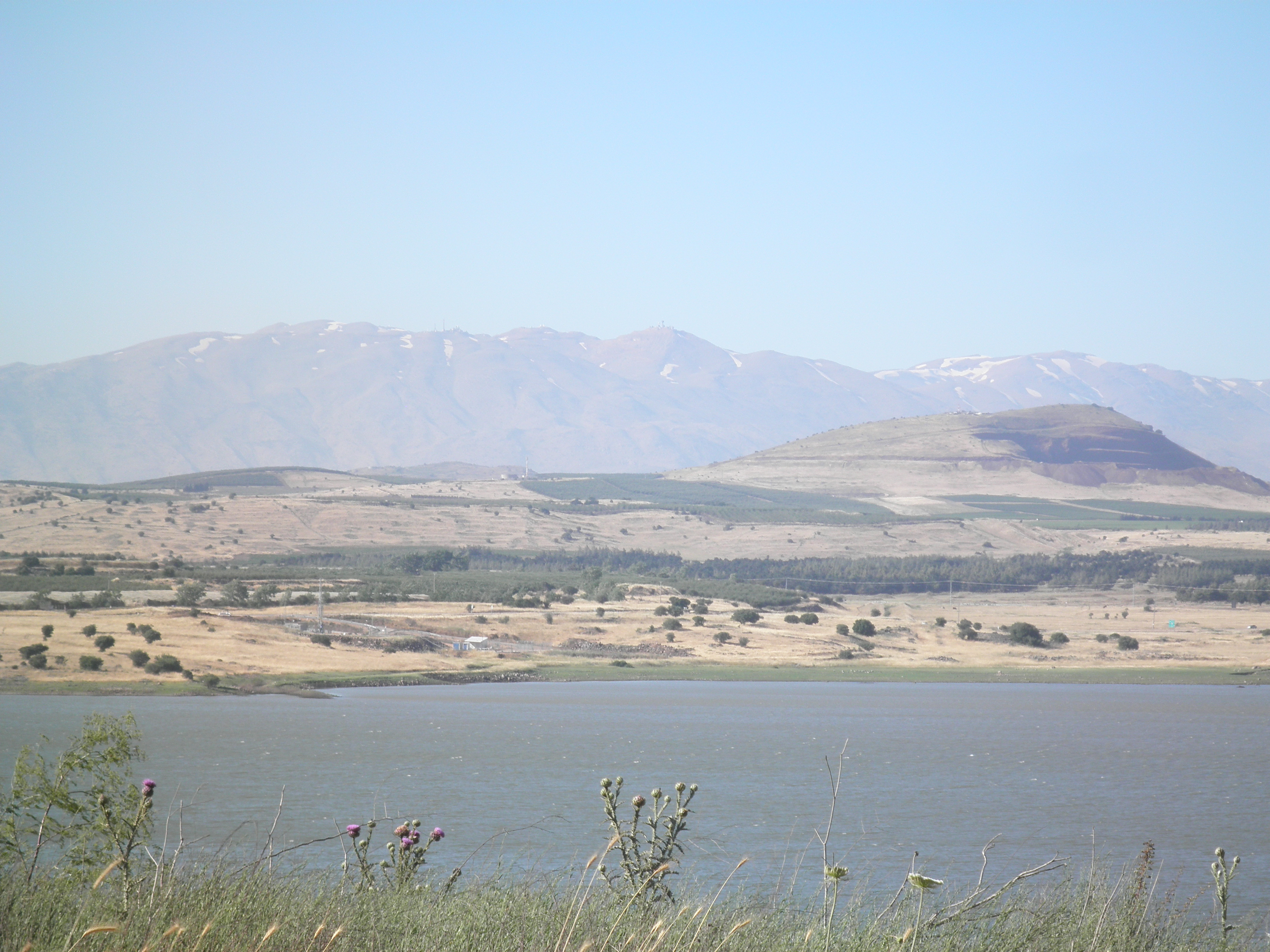 Mount Hermon, as seen from Merom Golan, Golan Heights.